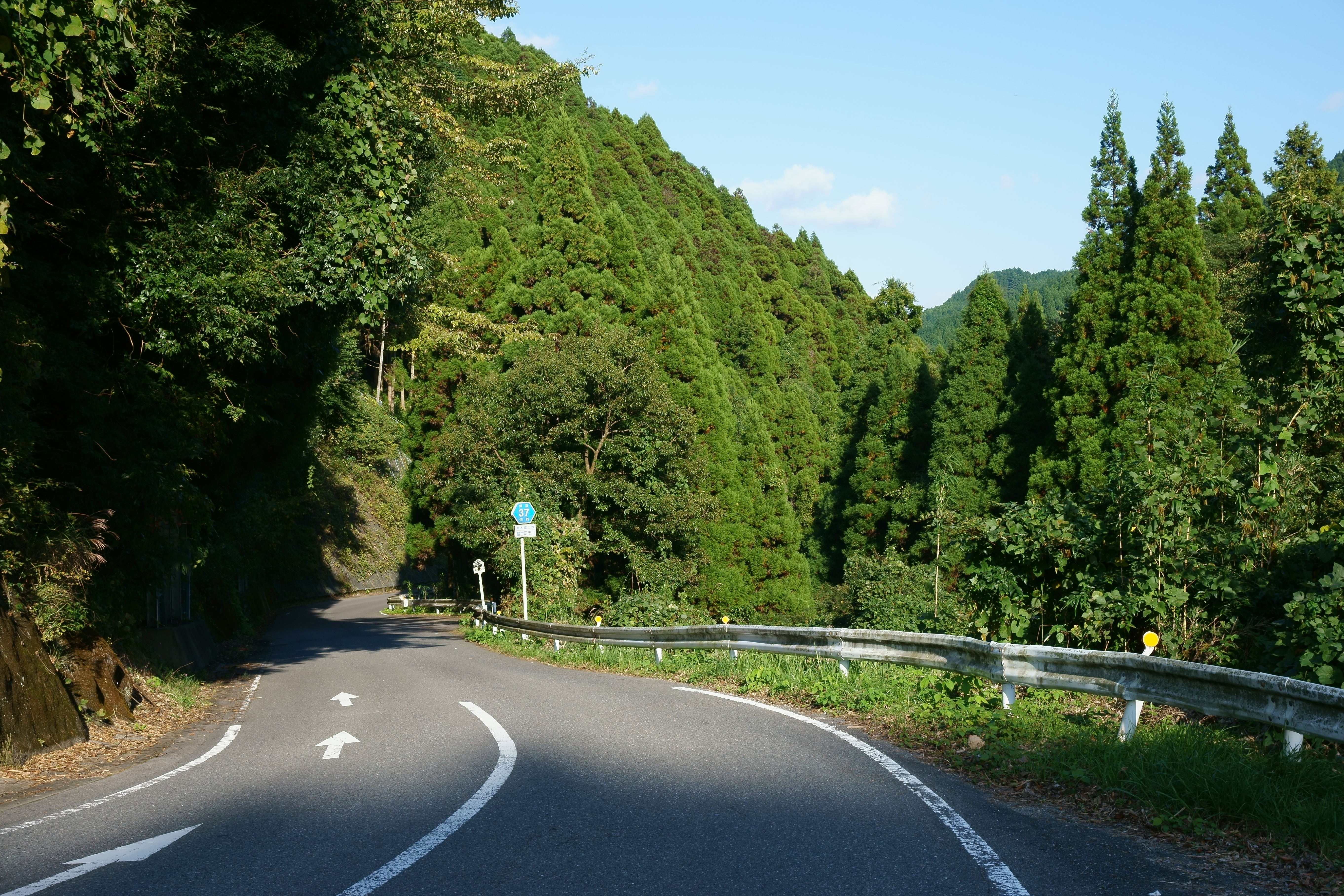 Saga Prefectural Road No.37 Kyuragi-Fuji Line in Ichikawa, Fuji-cho, Saga city, Saga prefecture.